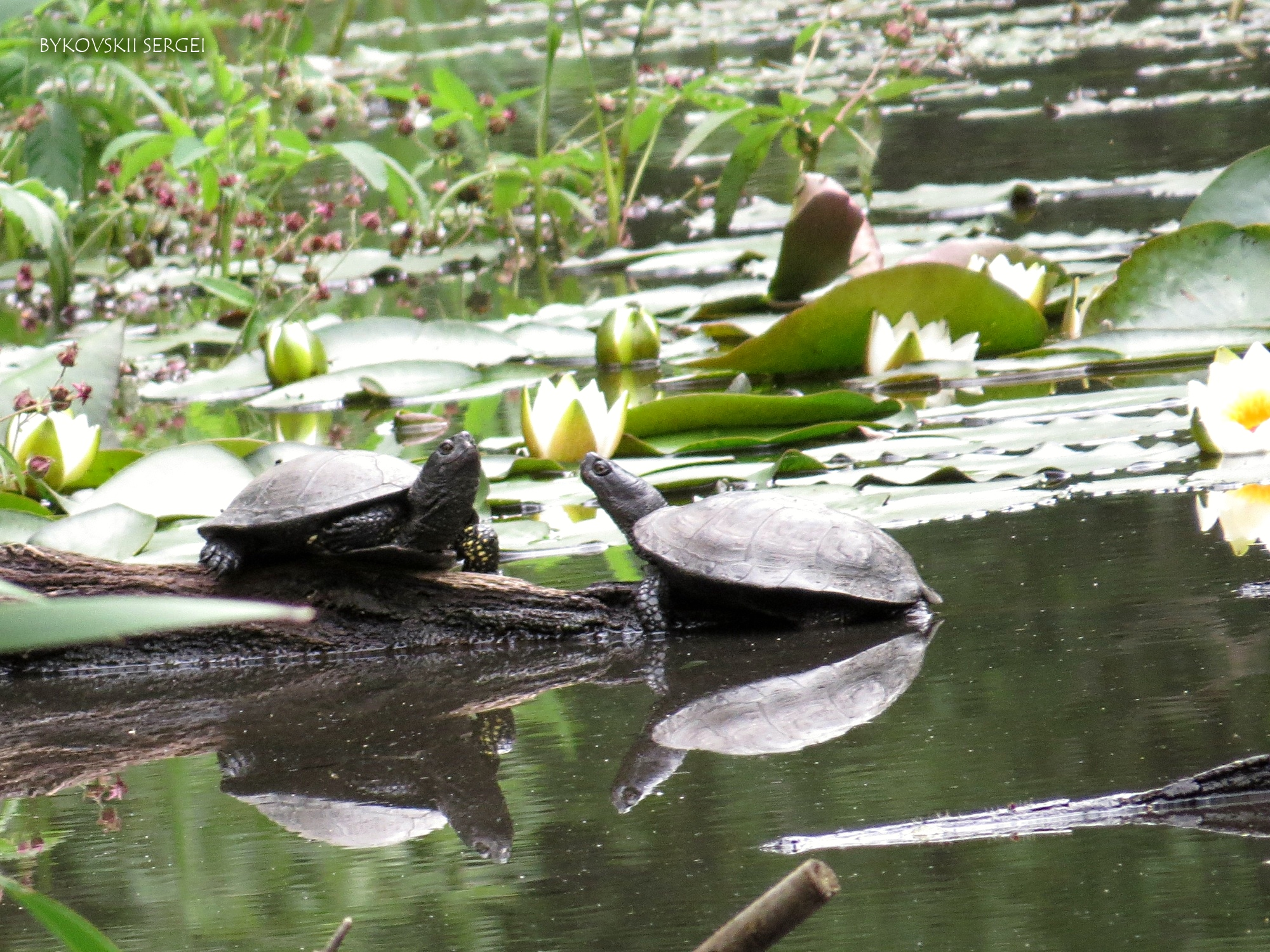 Emys orbicularis - one of the fauna Turtle Lake. The lake is named after them is. But since the local biocenosis impaired residents of neighboring villages, the lake may soon lose those inhabitants, after whom it is named. In this photo a couple of turtles bask in the sun climbed.